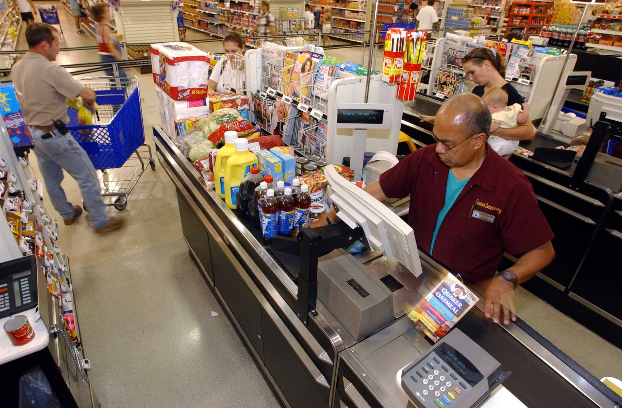 Virginia Beach, Va. (Aug. 13, 2002) -- A Navy family unloads their shopping cart while purchasing groceries at the Navy Commissary located just outside Naval Air Station Oceana. U.S. Navy photo by Photographer’s Mate 1st Class Michael W. Pendergrass. (RELEASED)